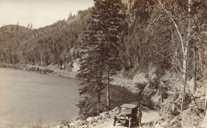 The narrow winding Chapleau Road alongside the Mississagi River, since widened into Highway 129. Watermark removed.